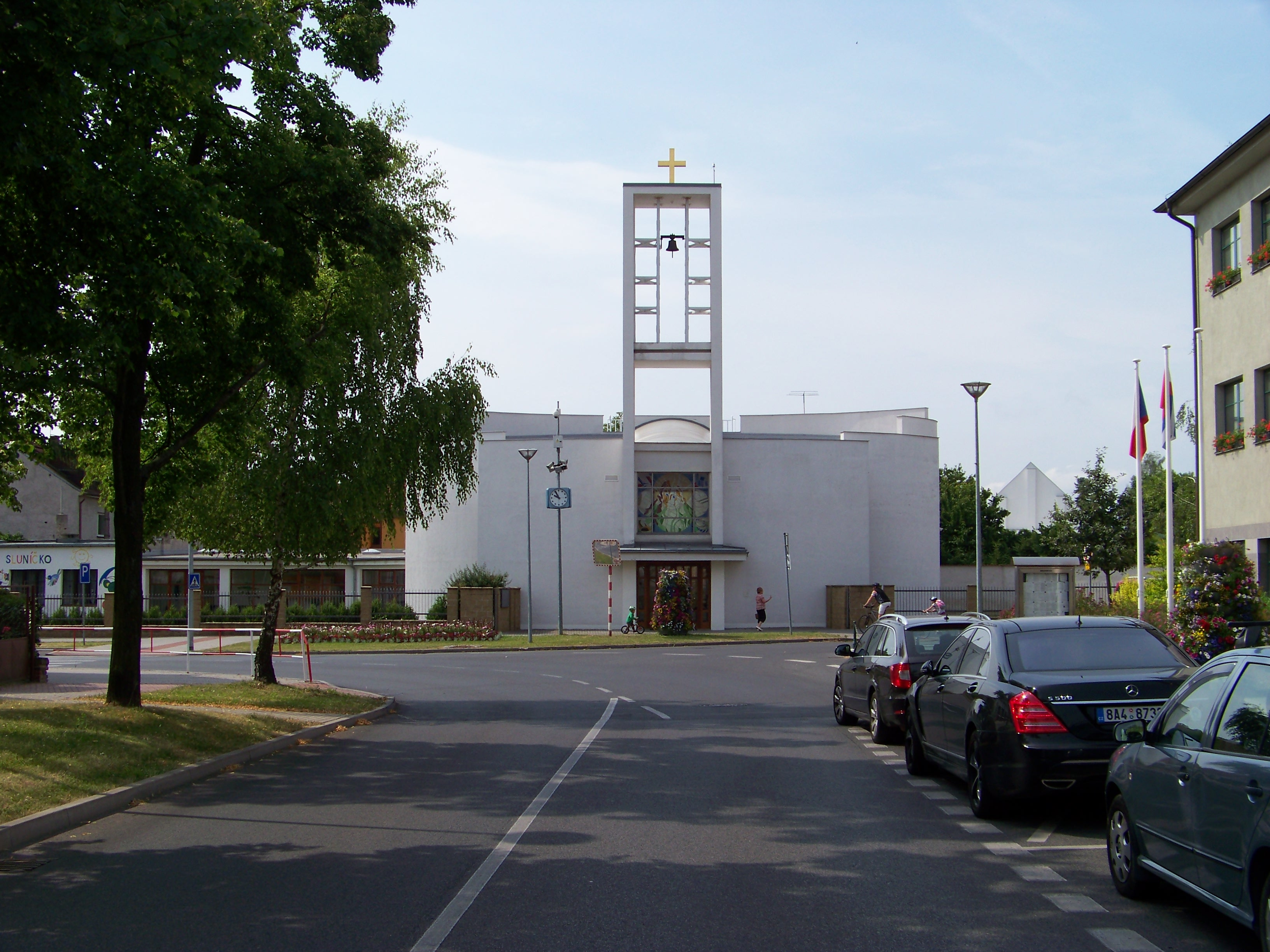 Prague-Kbely, Czech Republic. Semilská street, church of Saint Elisabeth.